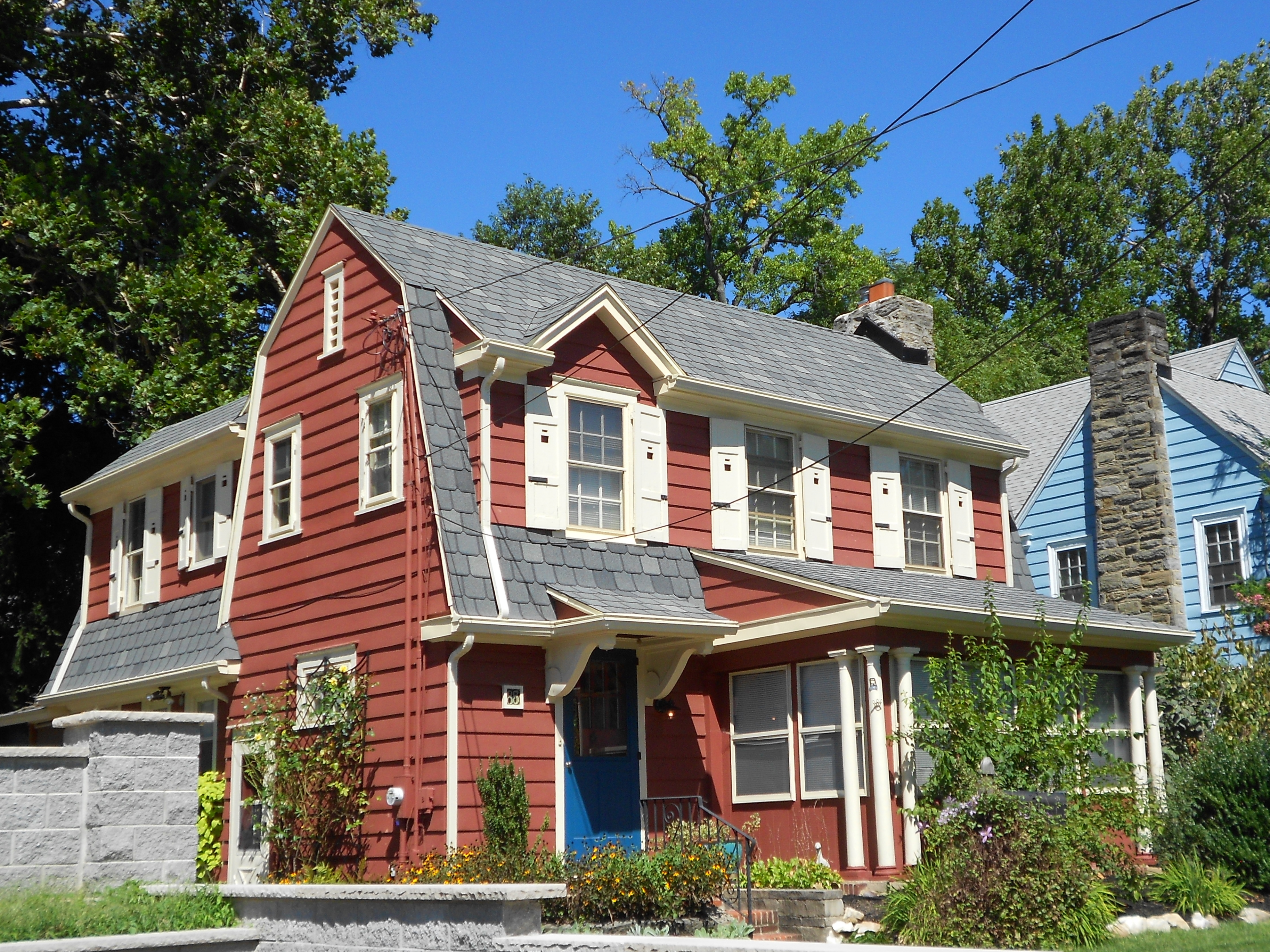 Henry Albertson Subdivision Historic District in Lansdowne, Pennsylvania